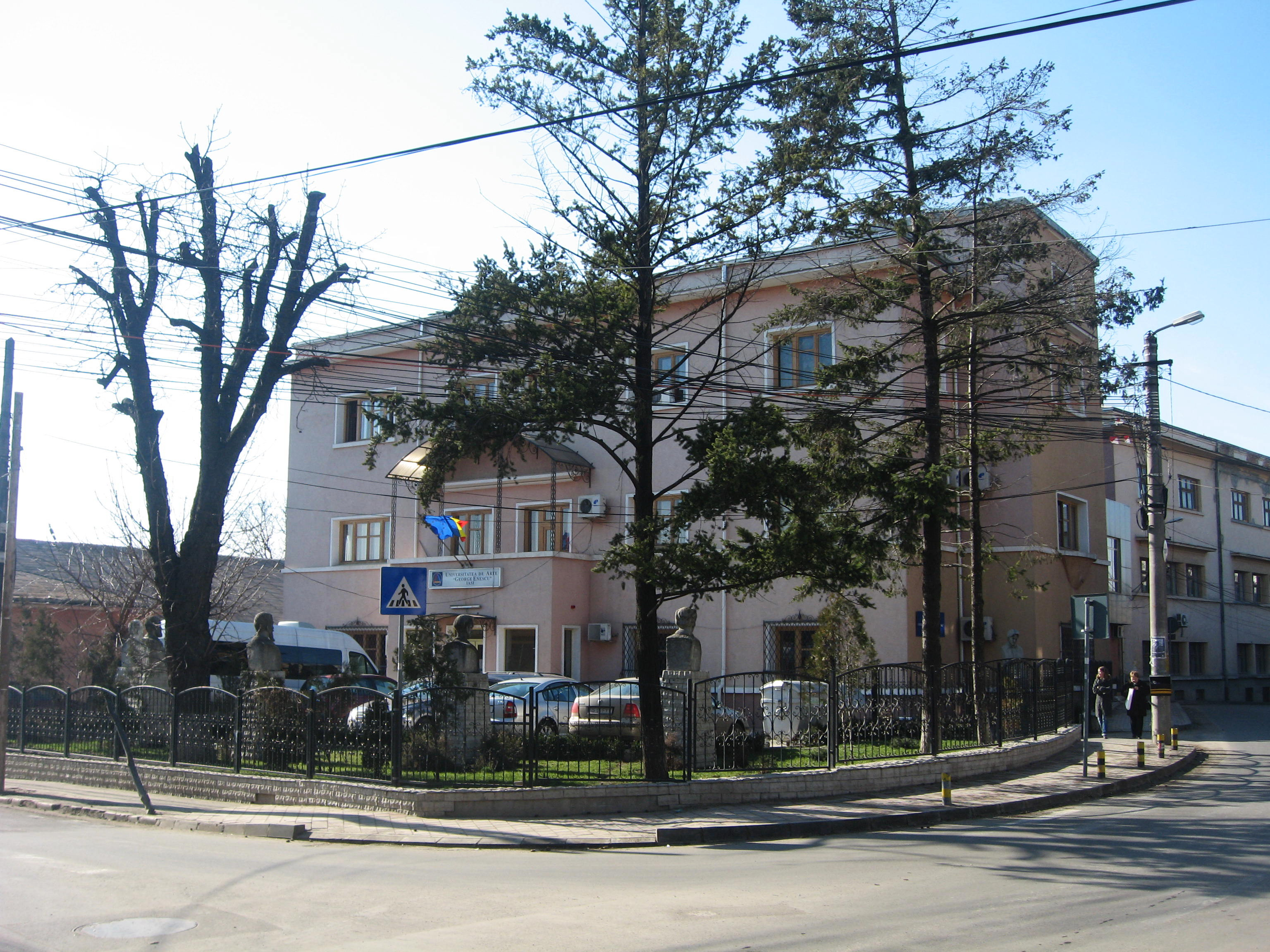 Casa Carp din Iaşi.